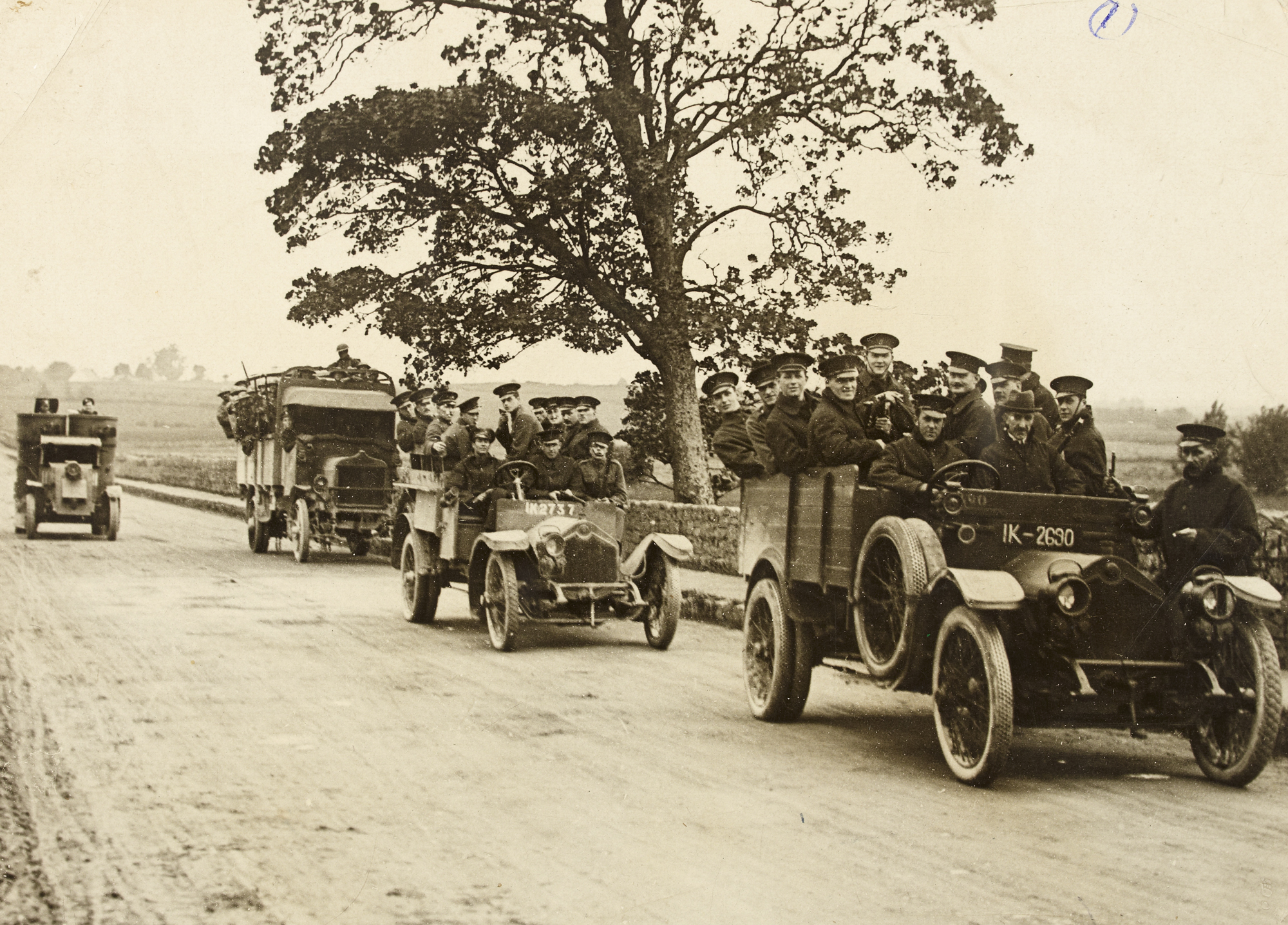 R.I.C. military and armoured car leaving Limerick on a scouting expedition So many maps but no definitive location as of yet - can you help? Thanks to [/photos/91549360@N03/ Dr O Mac] for identifying the vehicles as, two Crossley Tenders, One c1915 DAIMLER 30HP Y-TYPE 3-TON LORRY and one Austin Armoured car. Interesting times indeed as can be seen from the following contribution from [/photos/47297387@N03/ Carol Maddock] "Any Irishman who joins the service of the enemy in the R.I.C. at the present time must be regarded and dealt with as the worst type of traitor. We have no desire to be harsh to those who in older and more peaceful time joined through ignorance, not understanding what they did, and who, in these days, have shown no special malevolence in the work they are compelled to do against the Irish Republic; but there is no excuse for the Irishman who dons the uniform of the enemy for active service against his countrymen at the present time." (from p. 4 of An t-Óglách: The Official Organ of the Irish Volunteers, 15 April 1920) Photographer: W. D. Hogan Collection: Collection Hogan-Wilson Collection Date: ca.1920 NLI Ref.: HOG147 You can also view this image, and many thousands of others, on the NLI’s catalogue at